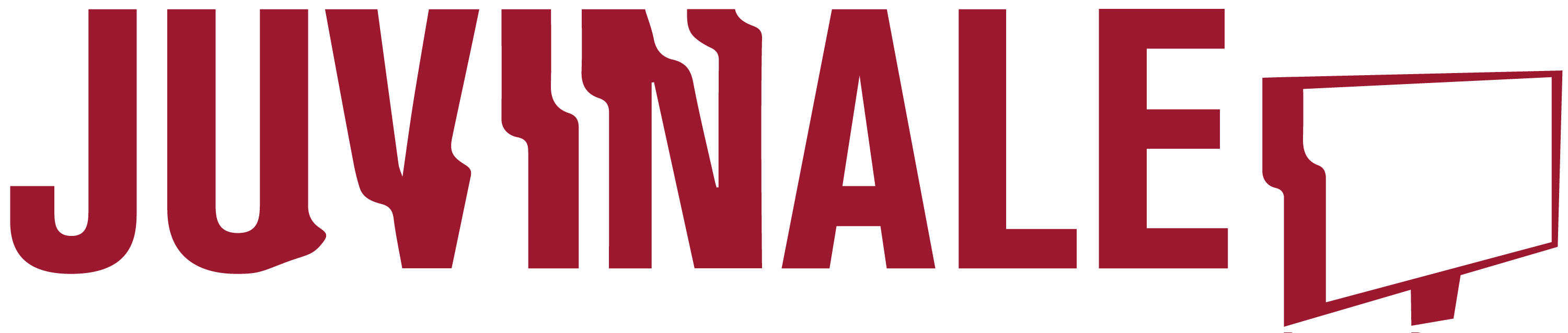 juvinale.at